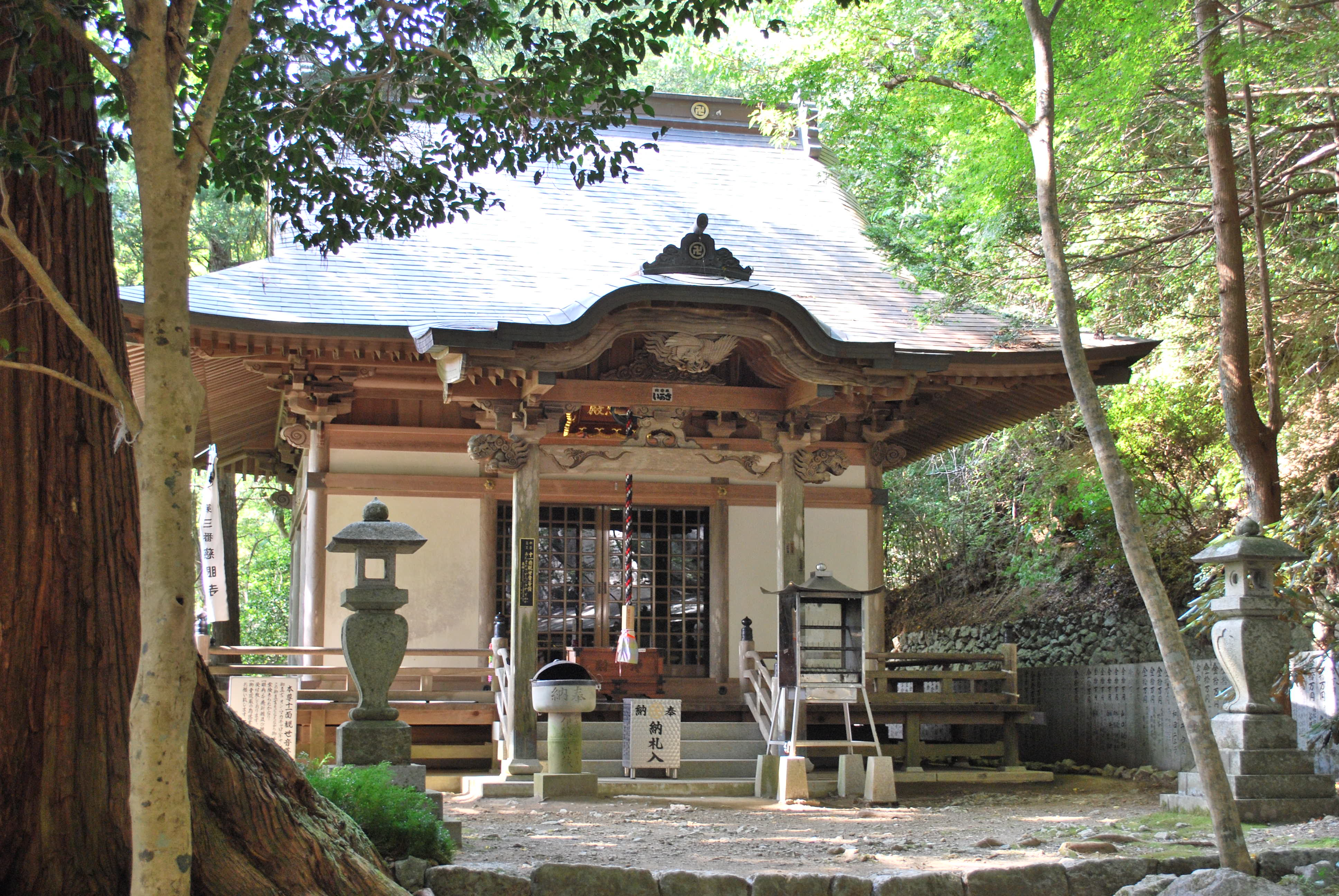 Main temple, Jigen-ji